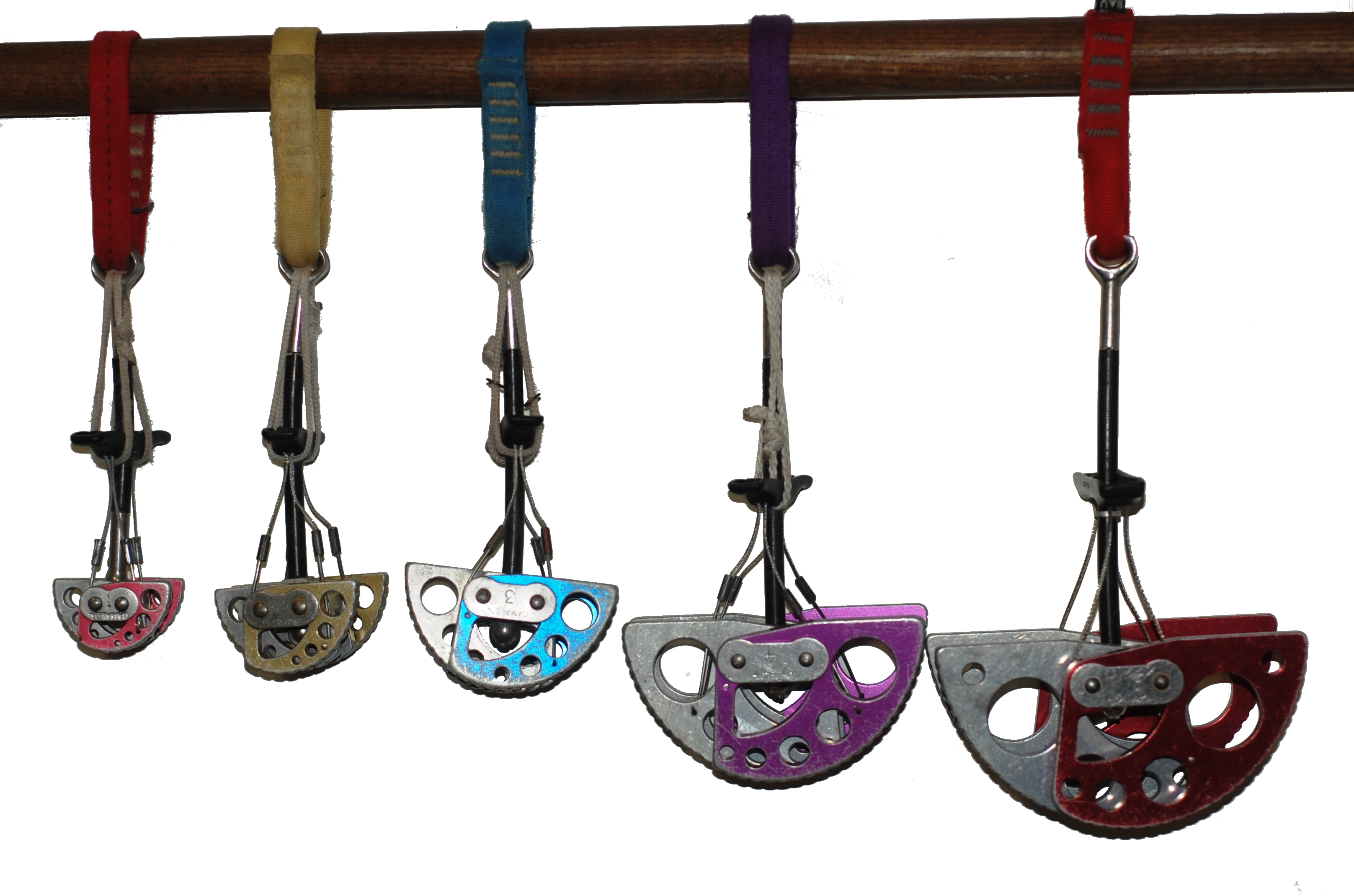 Black Diamond Camalots - type of climbing cam